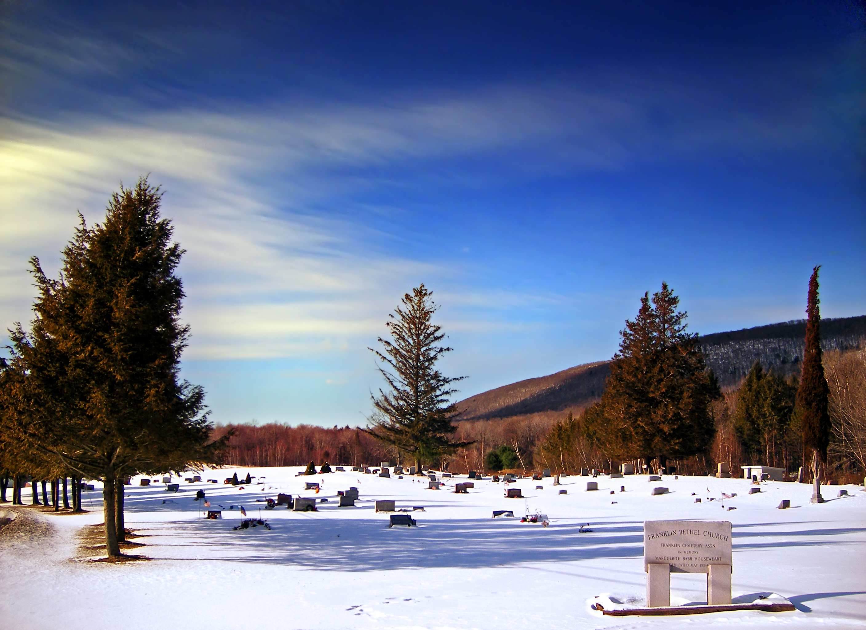 Roadside cemetery, Franklin Township, Lycoming County.